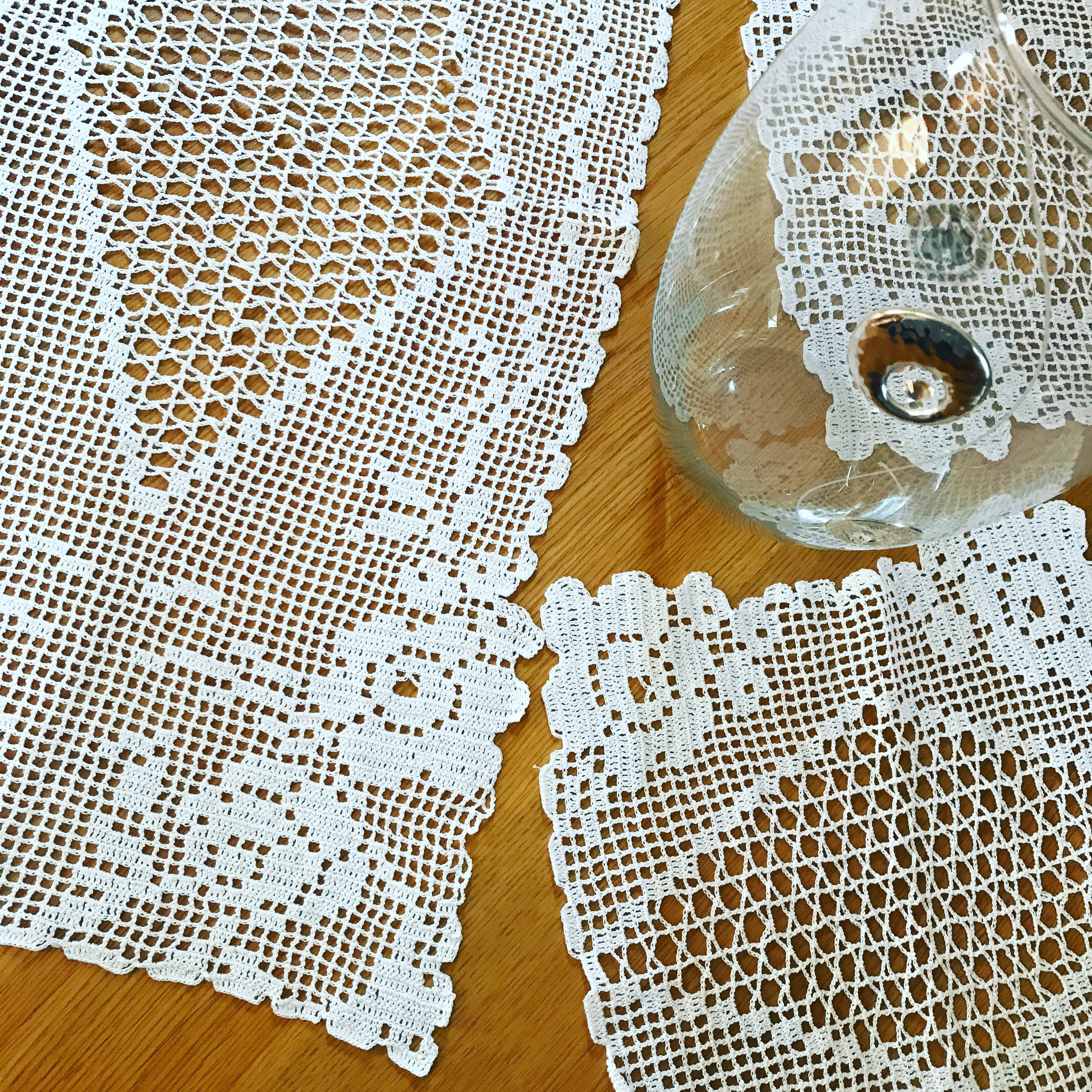 Doilies realized by filet crochet